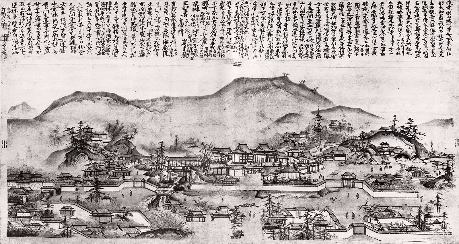 unsigned painting attributed to Sesshu thanks to inscription by Ryoan Keigo: "the old man drew this for me"; image also in Martin Collcutt Five Mountains p44